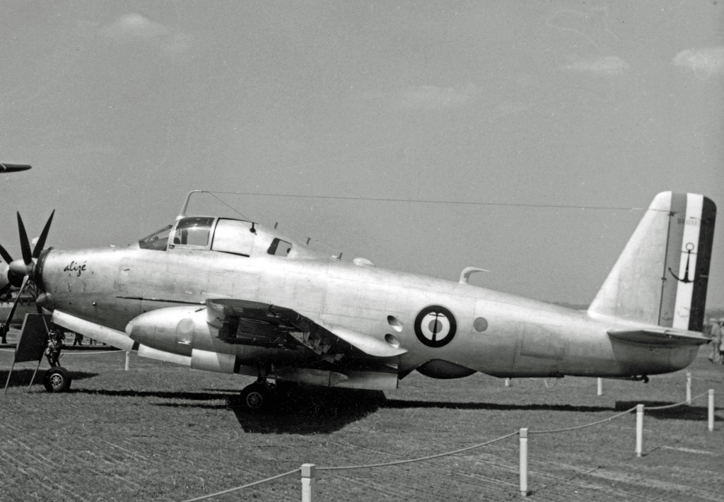 The prototype Breguet 1050 Alize No.01 displayed at the 1957 Paris Air Salon